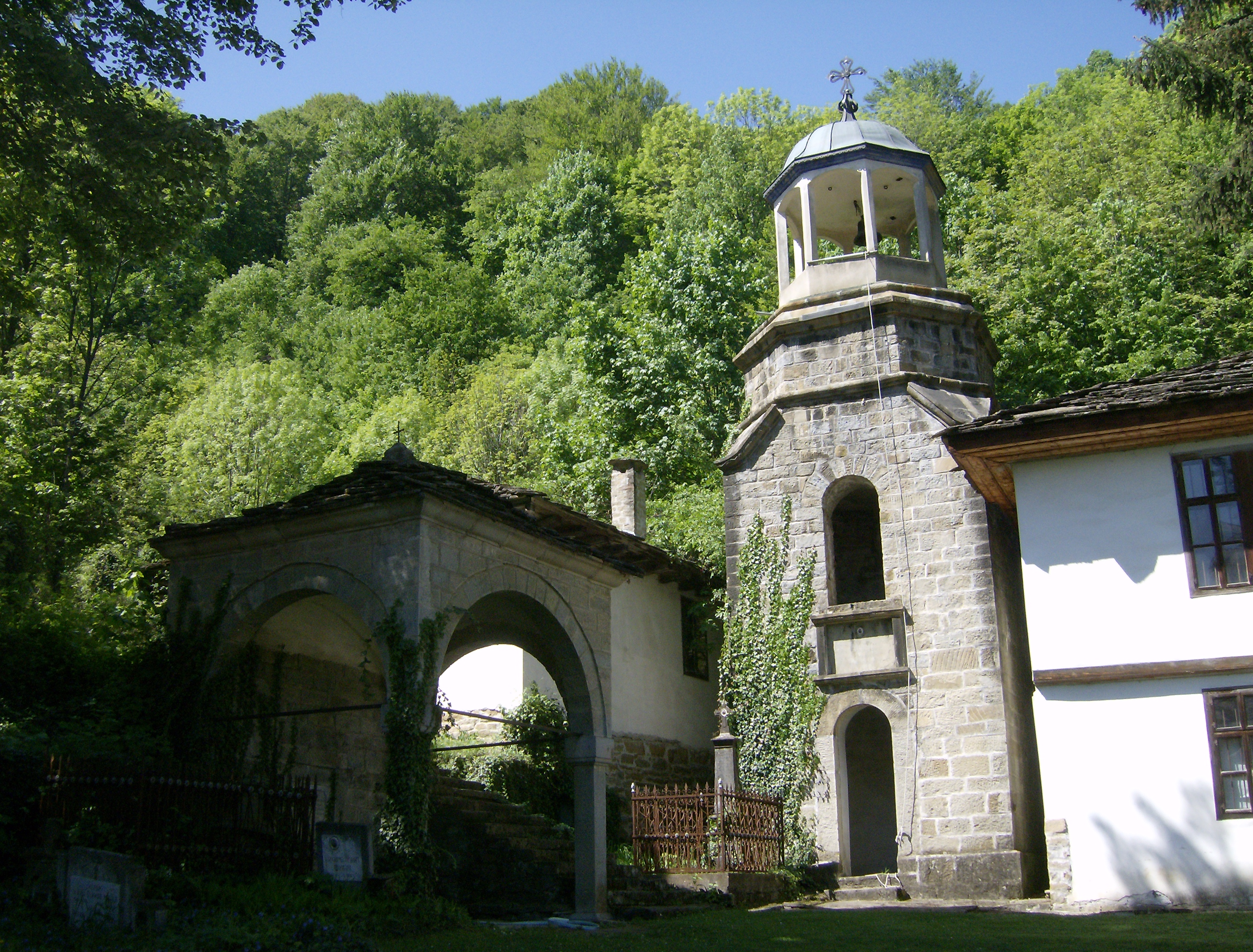 Batoshevo Monastery of Assumption of Mary